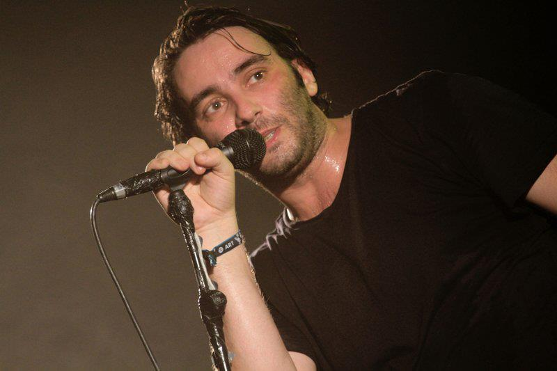 Ardentes 2010 - Belgium